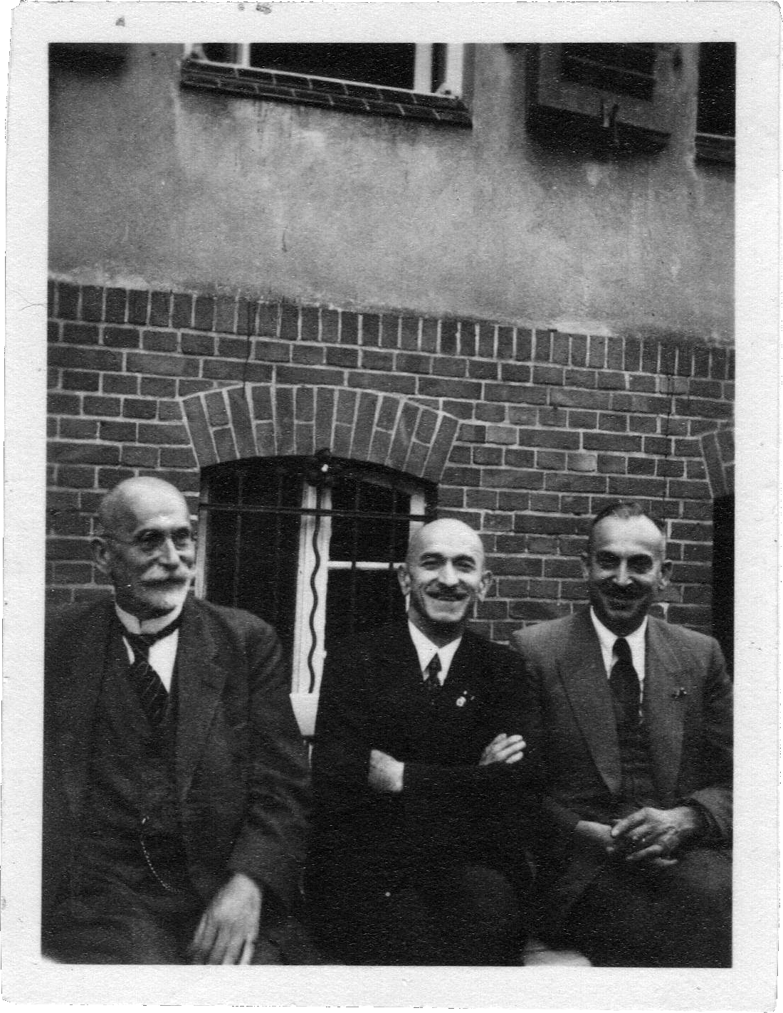 Otto Seidemann, * 11.09.1867, Wilhelm Seidemann, * 17.09.1879, Walter Seidemann, * 24.04.1883, Bad Freienwalde (Oder) im Garten vor Villa "Hoffnung" am 11.09.1937